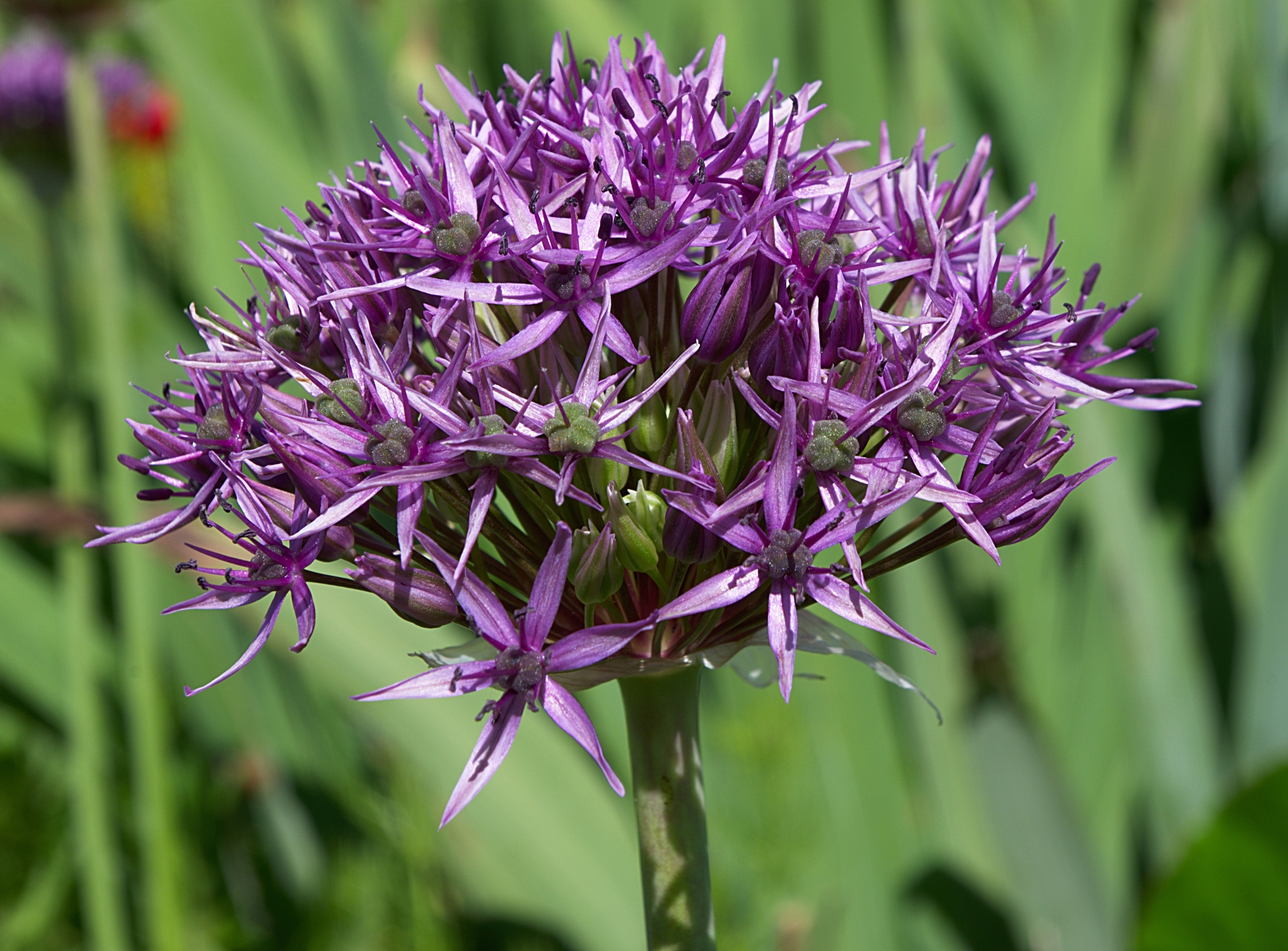 Ornamental garlic (Allium atropurpureum) in a garden. Saint-Amant, Charente, France.